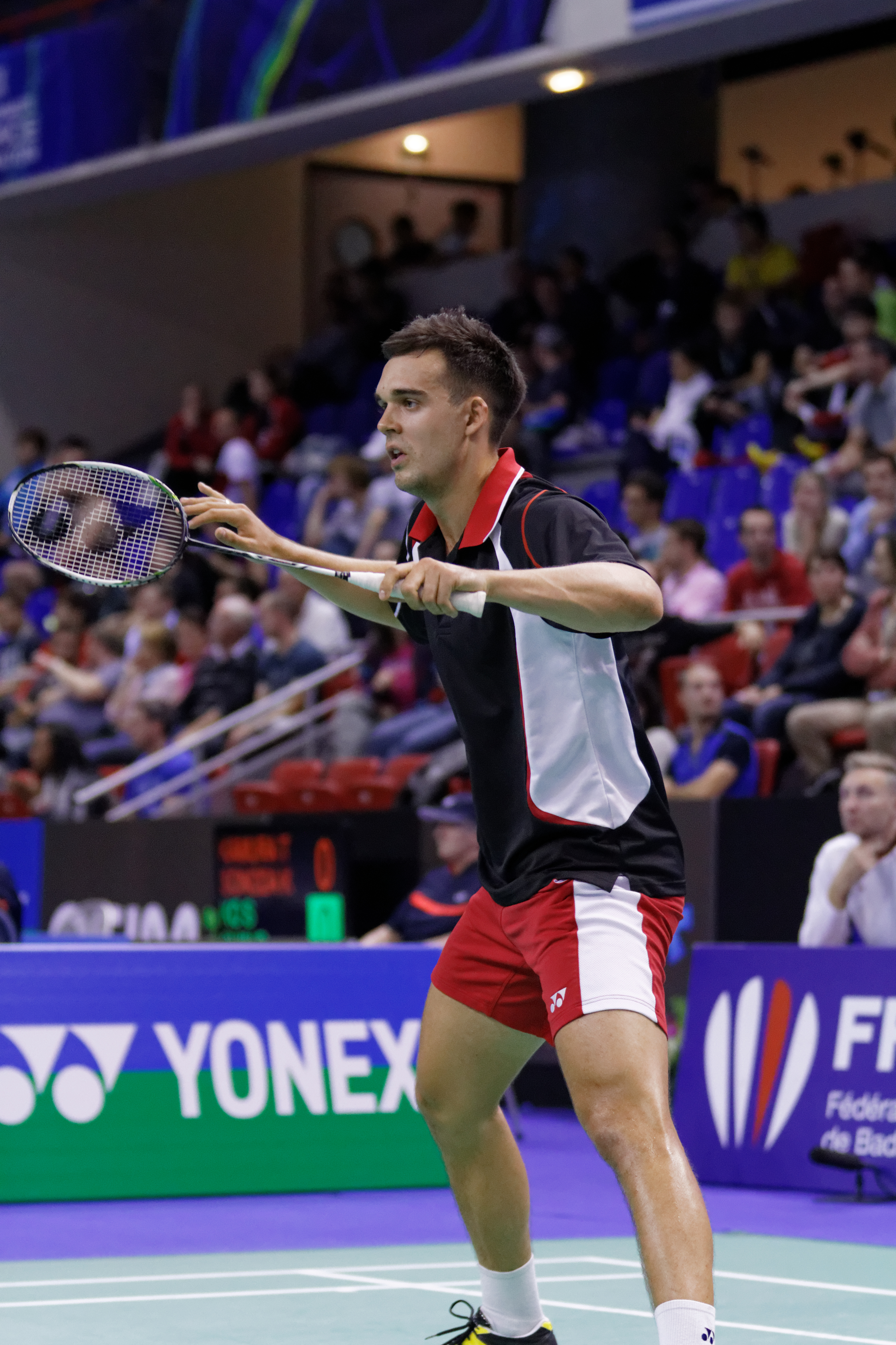 2013 French open. Mixed's doubles eightfinal. Markis Kido and Pia Zebadiah Bernadeth vs Chris Adcock and Gabrielle White.